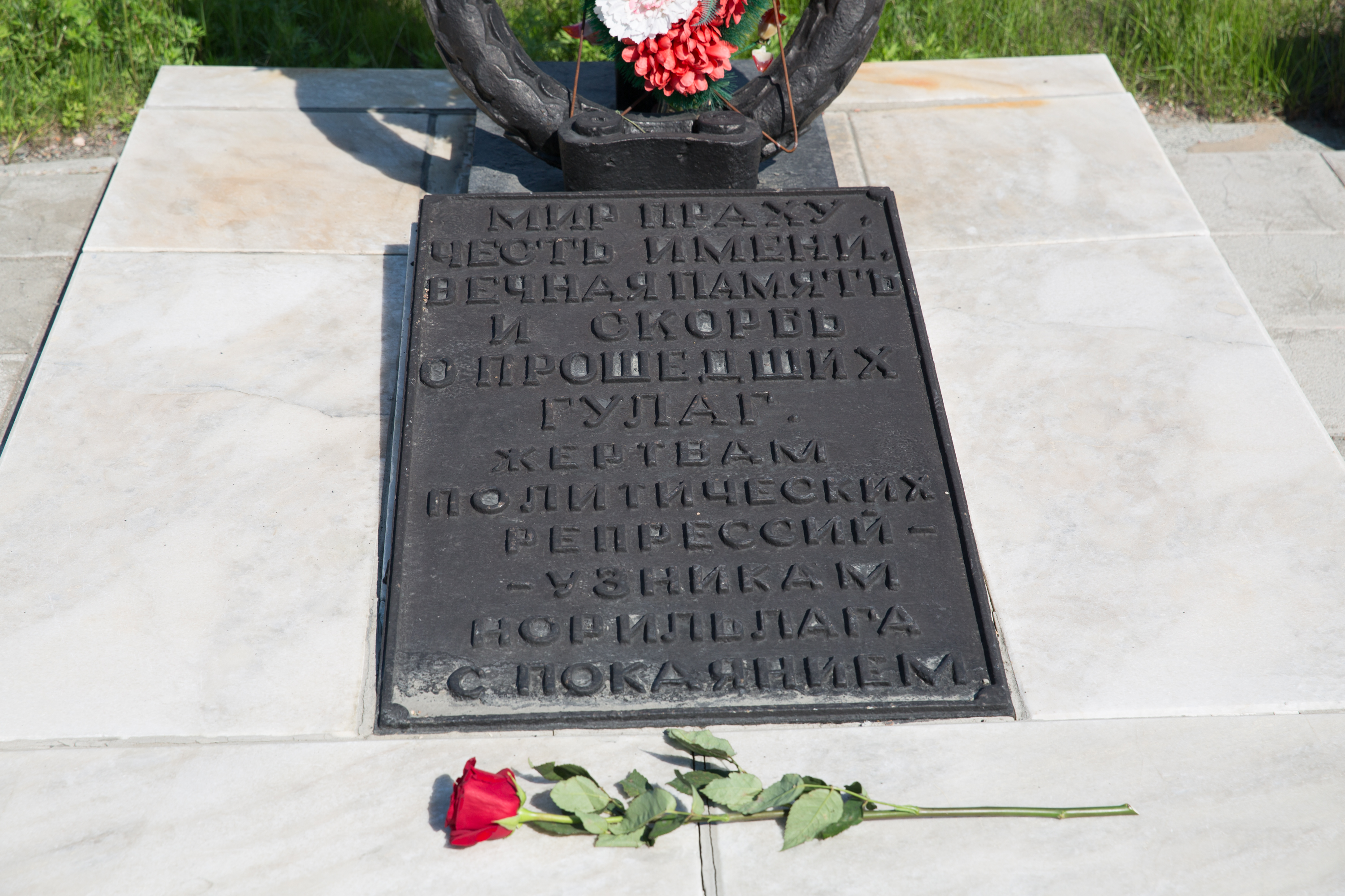 Memorial for Gulag victims in Norilsk "Golgotha"